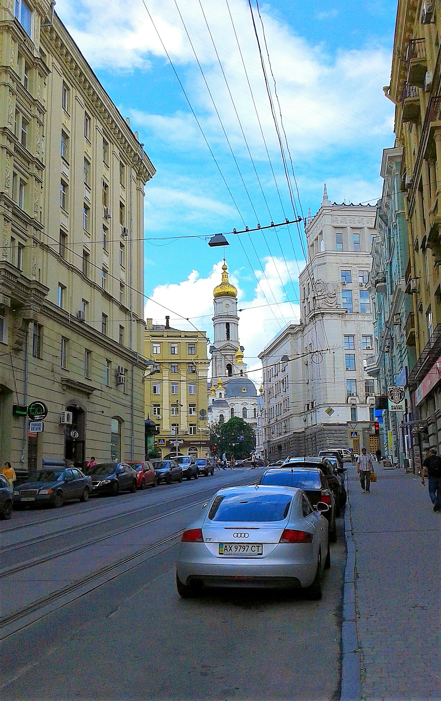 (29) ST ASSUMPTION ORTHODOX CATHEDRAL IN CITY OF KHARKIV STATE OF UKRAINE PHOTOGRAPH BY VIKTOR O LEDENYOV 20160616